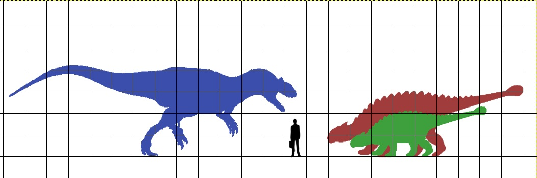 Saurophaganax at 13 metres, and upper bound (9 m) and lower bound (6.25 m) for Ankylosaurus